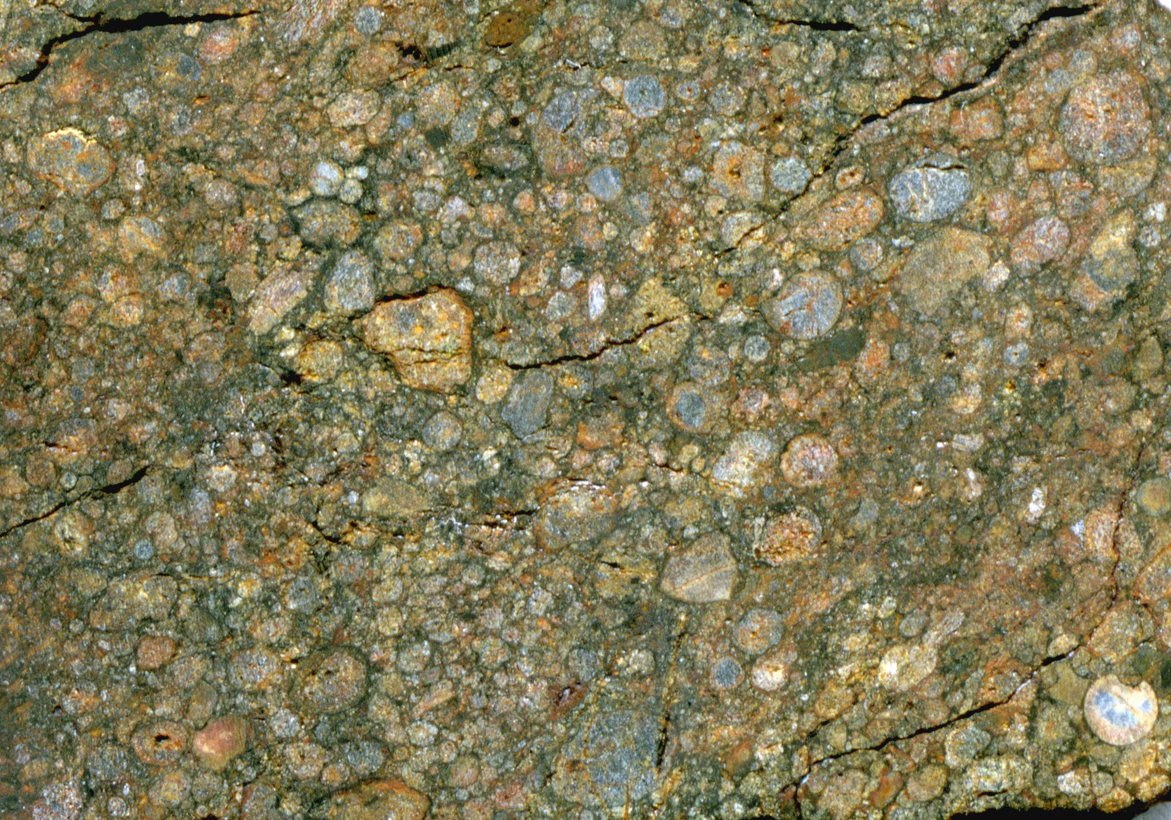 Ordinary chondrite (field of view ~2.2 cm across) - NWA 3189 Meteorite, found in northwestern Africa. This has been classified as an LL3.2-3.4 ordinary chondrite (“LL” means very low total iron content; “3” refers to well-preserved chondrules - the rock has not been subjected to metamorphism intense enough to disrupt the chondritic texture). This chondrite has a nice, multicolored mix of chondrules of varying size and shape. Not all chondrites have obvious chondrules as this specimen does. Chondrites subjected to significant thermal metamorphism some time in their history have chondrules that are partially to almost completely recrystallized.